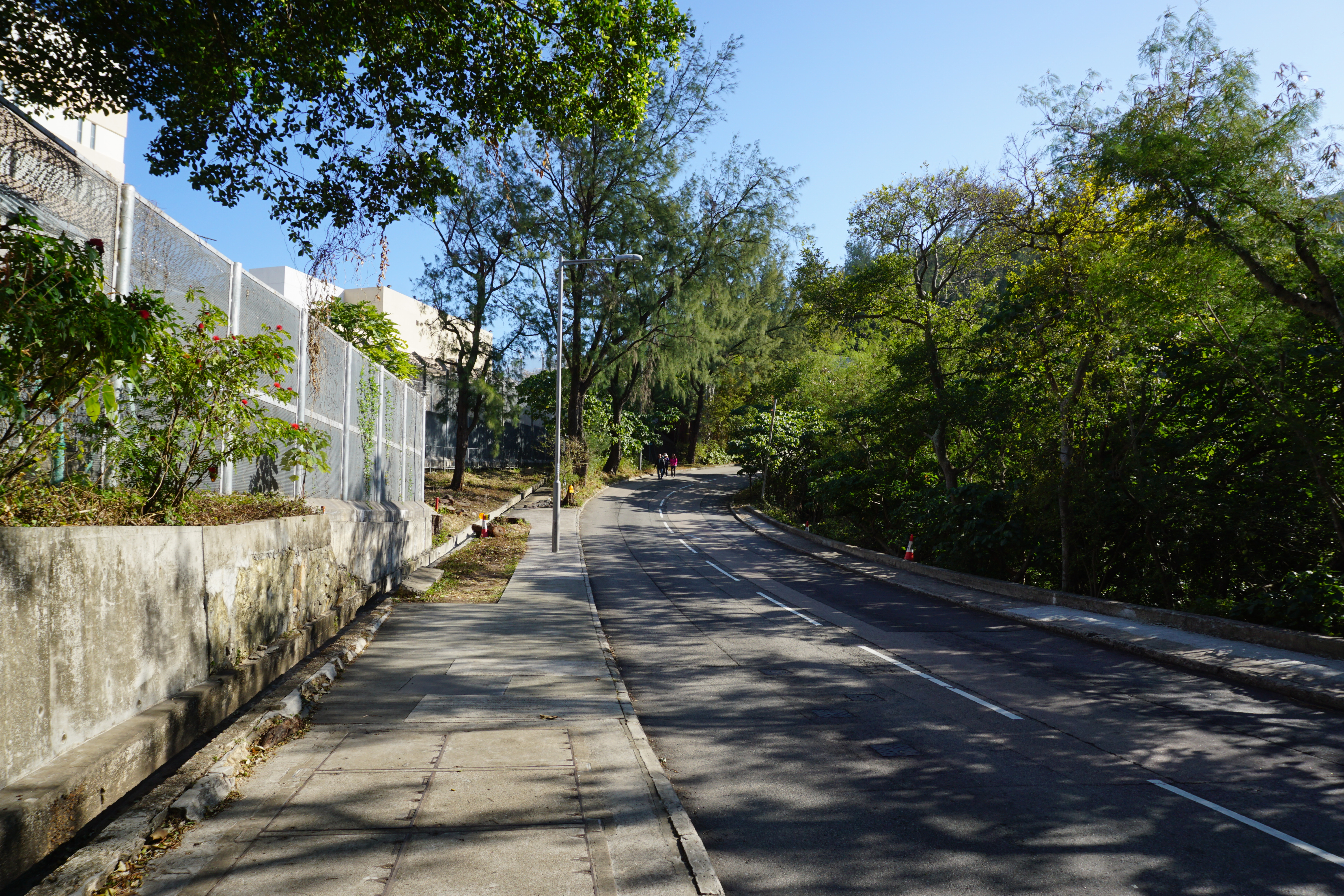 Wong Ma Kok Road in Stanley, Hong Kong.